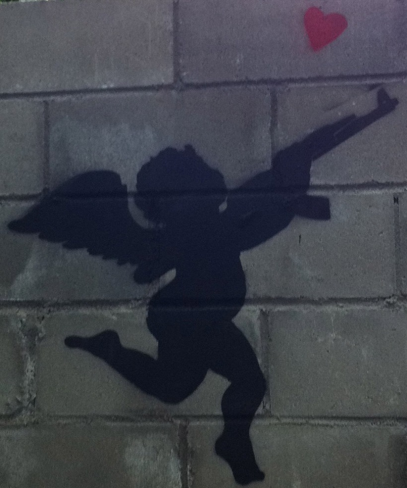 street art in NY by BLANK